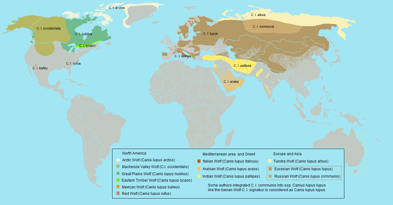 Geographic range of the natural subspecies of the Gray Wolf (Canis lupus)